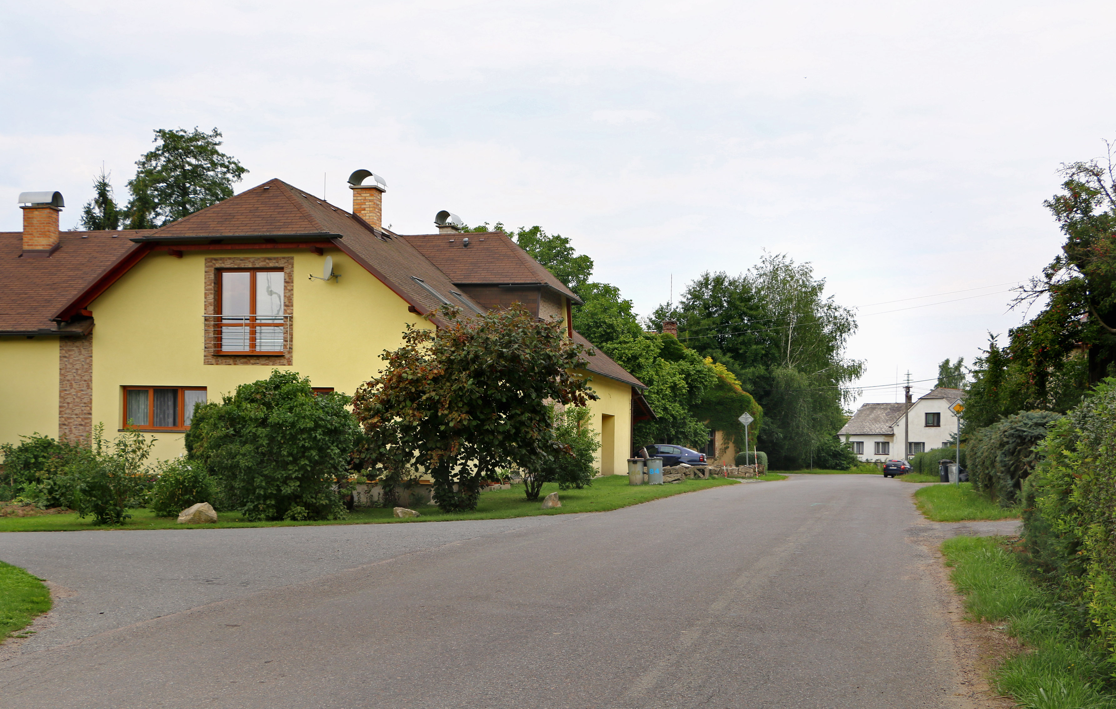 Main street at Horní Třešňovec, Czech Republic.